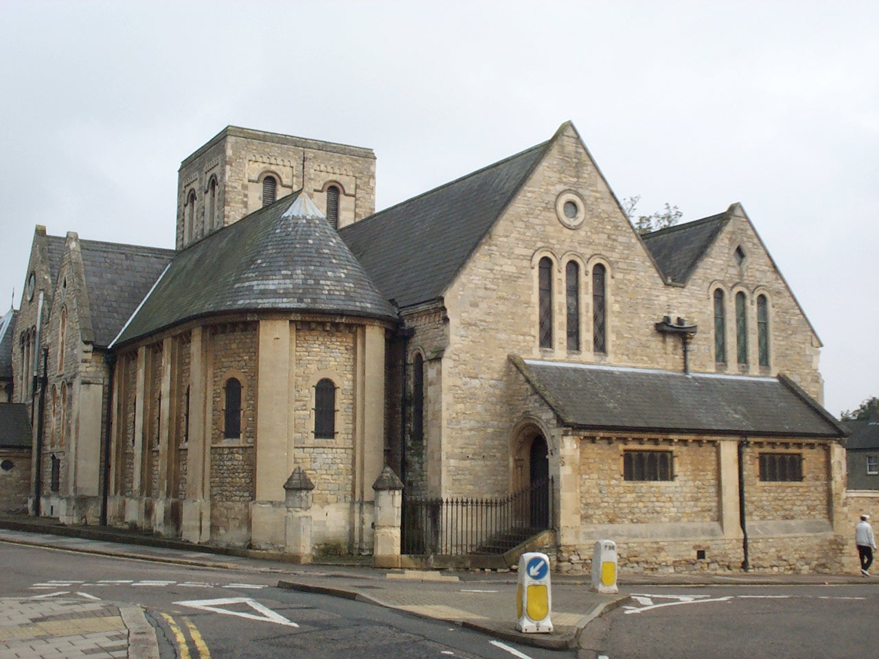 Polish Church of Sacred Heart of Jesus and St Cuthbert, 57 Mill Street, Bedford, Bedfordshire, England. Roman Catholic.